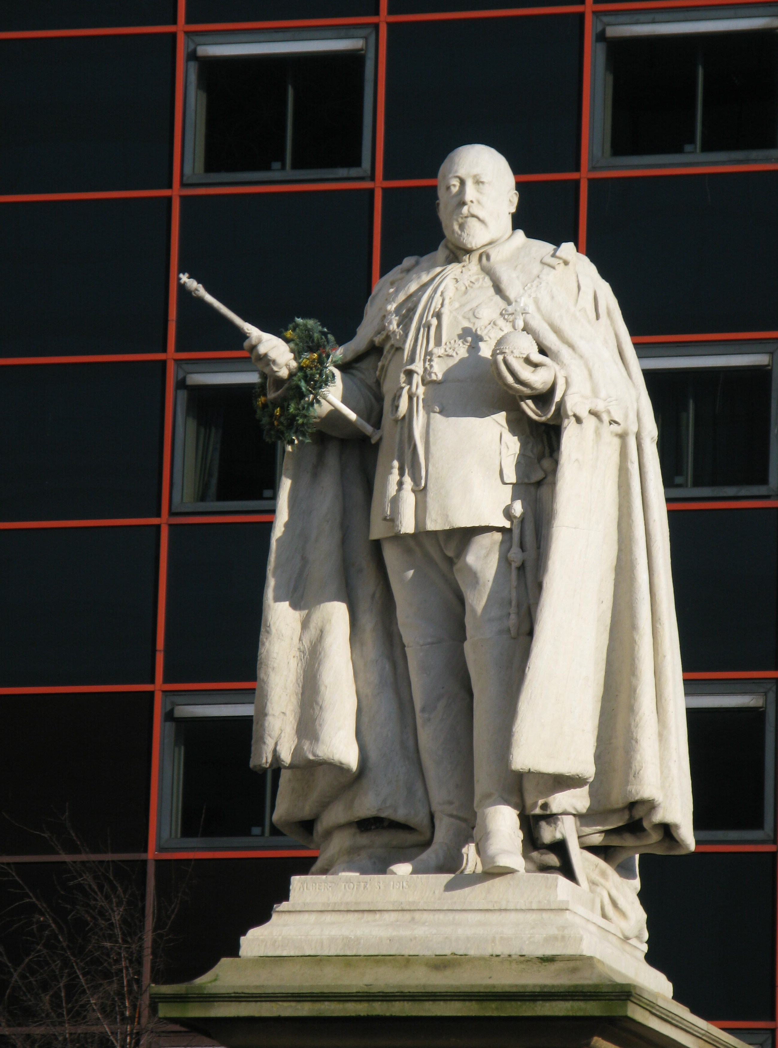 new site outsdie Baskeerville House